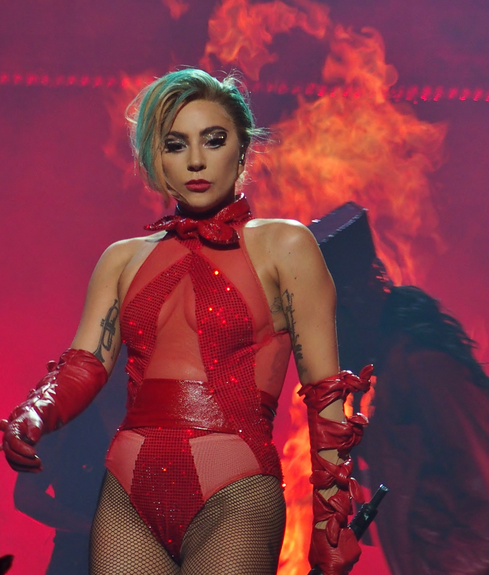 Lady Gaga performing "Bloody Mary" on the Joanne World Tour